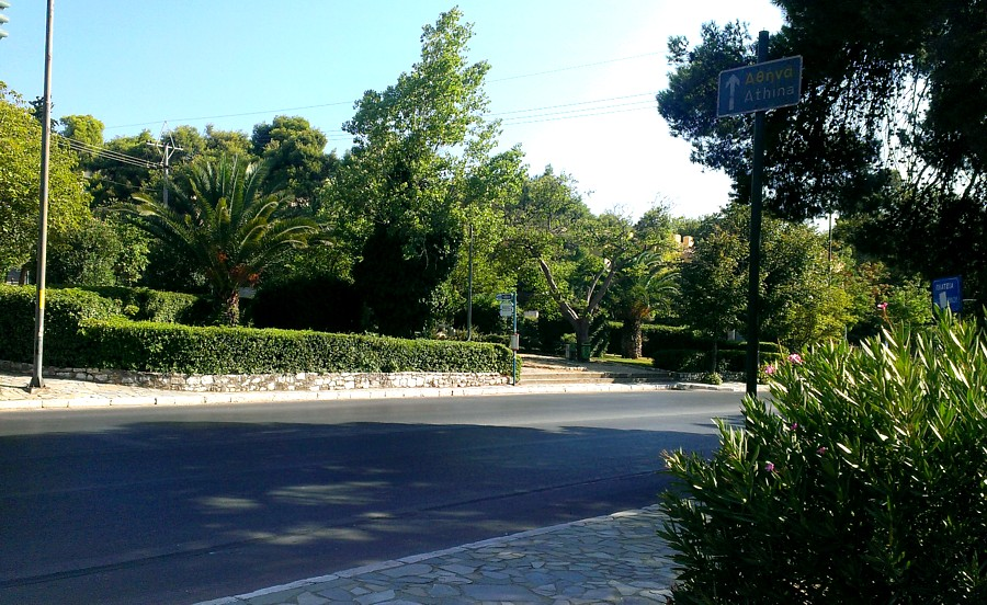 ekali